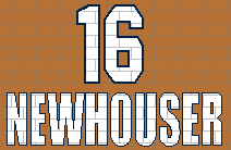 A recreation of how it looks at Comerica